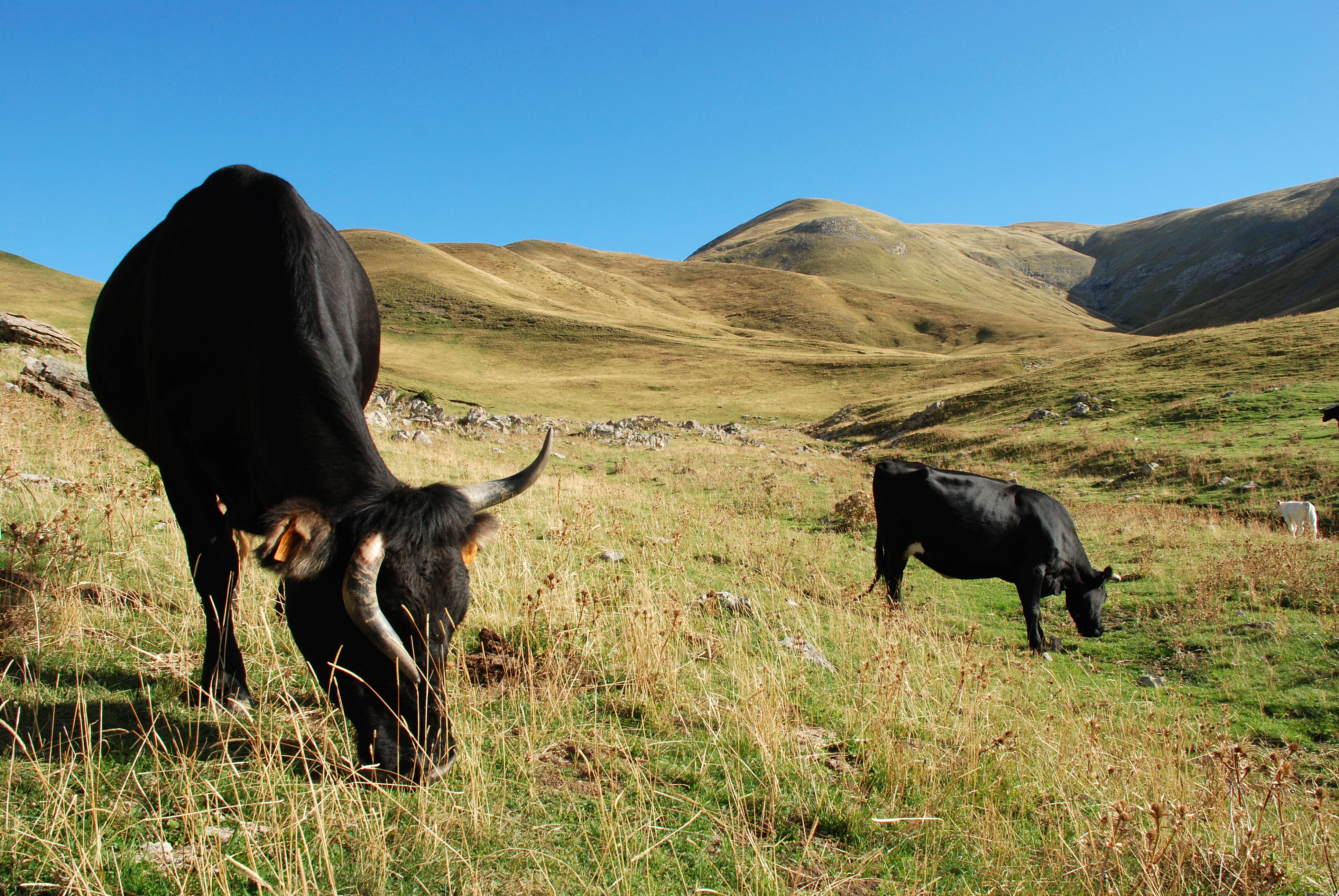 Cows grazing on alpine meadows in the pyrenees